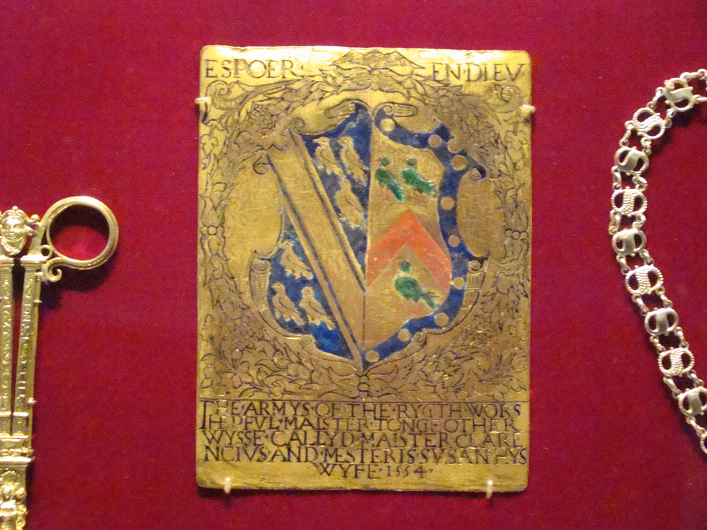 Enamelled gilt copper plaque with the arms of Tonge Dated 1554. Possibly displayed originally in the church of St Mary Overy, Southwark, London, now Southwark Cathedral. This plaque shows the arms of Sir Thomas Tonge impaling those of his wife Susanna White. Sir Thomas held important posts at the College of Arms during the reign of Henry VIII. Similar enamelled plaques were used to denote seats reserved for the Knights of the Order of the Garter at St George's Chapel, Windsor Castle (see Category:Stall plates of Knights of the Garter). A rectangular plaque bearing the arms of Sir Thomas Tonge in champlevé enamel on gilt copper. The arms of Tonge (azure a bend cotised between six martlets) impale those of his wife (or a chevron gules between three popinjays vert armed and langued gules within a bordure azure bezanty) and the whole is enclosed within a wreath. There is a French motto along the top: ESPOER EN DIEU (Hope in God) and an inscription in English beneath: The armys of the ryght worshepful Maister Tonge otherwyse called Maister Clarencivs and mesteris Susan hys wyfe. Thomas Tonge held the offices of York Herald and Norroy King of Arms. In 1534 he was created Clarenceaux King of Arms. He died in 1536 and was buried in the Church of St. Mary Overy in Southwark, now Southwark Cathedral. His wife was Susanna White, a daughter of Richard White of Hutton, Essex. She survived her husband by nearly 30 years and was the First Lady of the Privy Chamber to Queen Mary. Museum no. 4358-1857 Wikipedia Loves Art at the Victoria and Albert Museum This photo of item # 4358-1857 at the Victoria and Albert Museum was contributed under the team name "AndrewTurvey" as part of the Wikipedia Loves Art project in February 2009. Victoria and Albert Museum The original photograph on Flickr was taken by AndrewRT—please add a comment to the original Flickr page whenever a use has been made on Wikipedia or another project. Project galleries on Flickr: this institution, this team